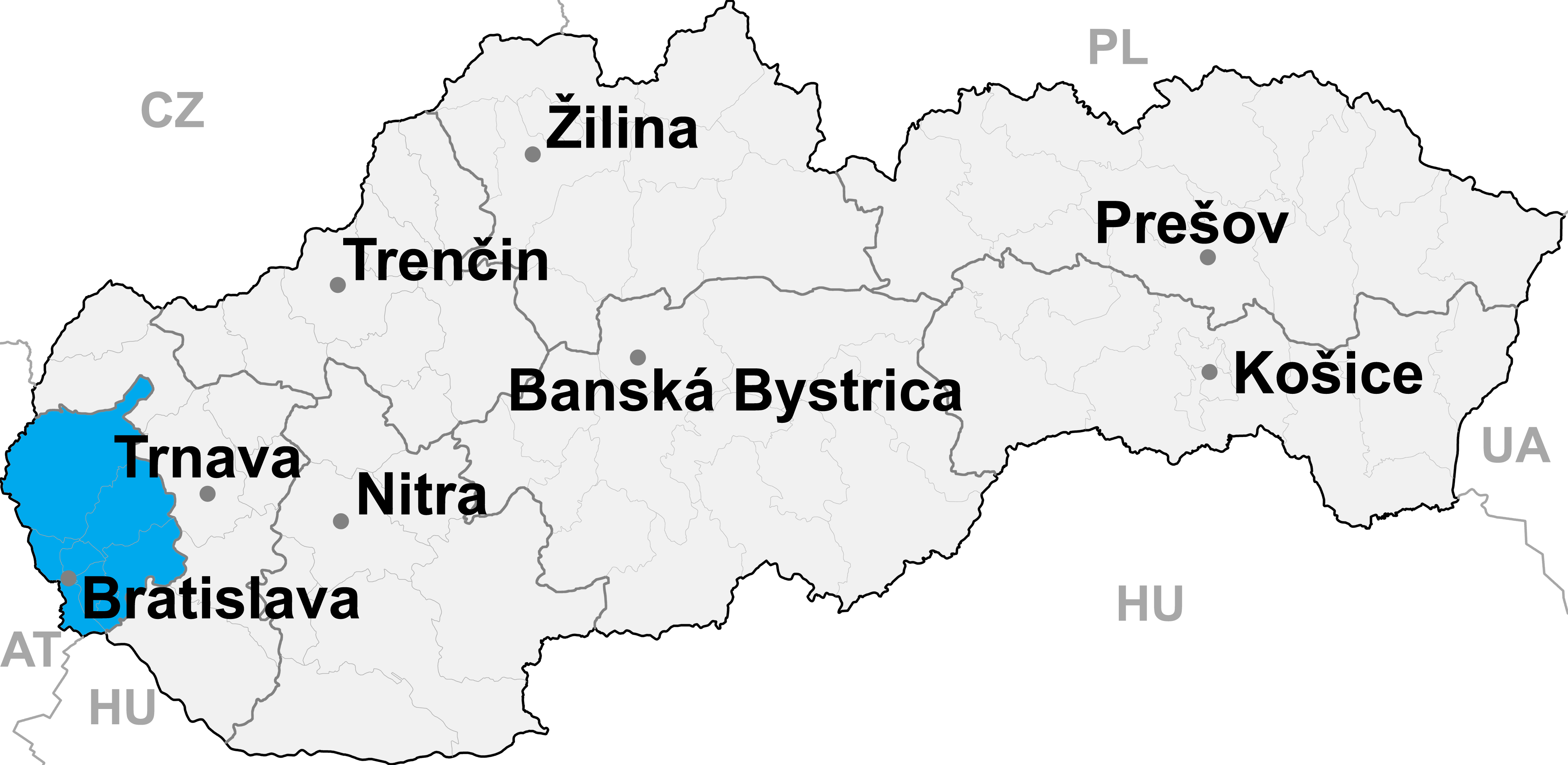 map of Slovakia, district (kraj) of Bratislava highlighted